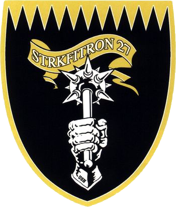 Insignia of the U.S. Navy Strike Fighter Squadron 27 (VFA-27) "Royal Maces".